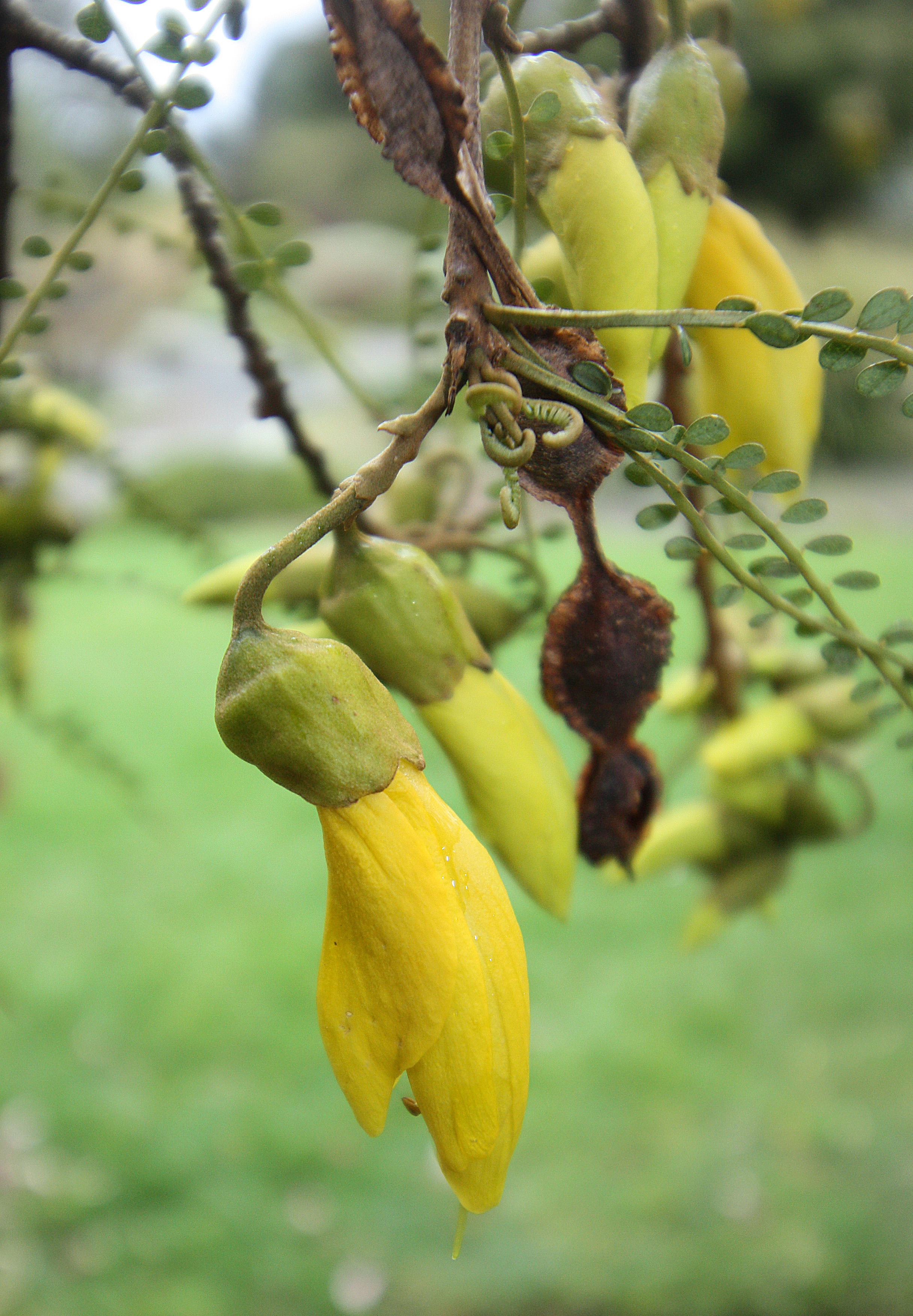 Sophora longicarinata (kōwhai) flowers, foliage and seed pod